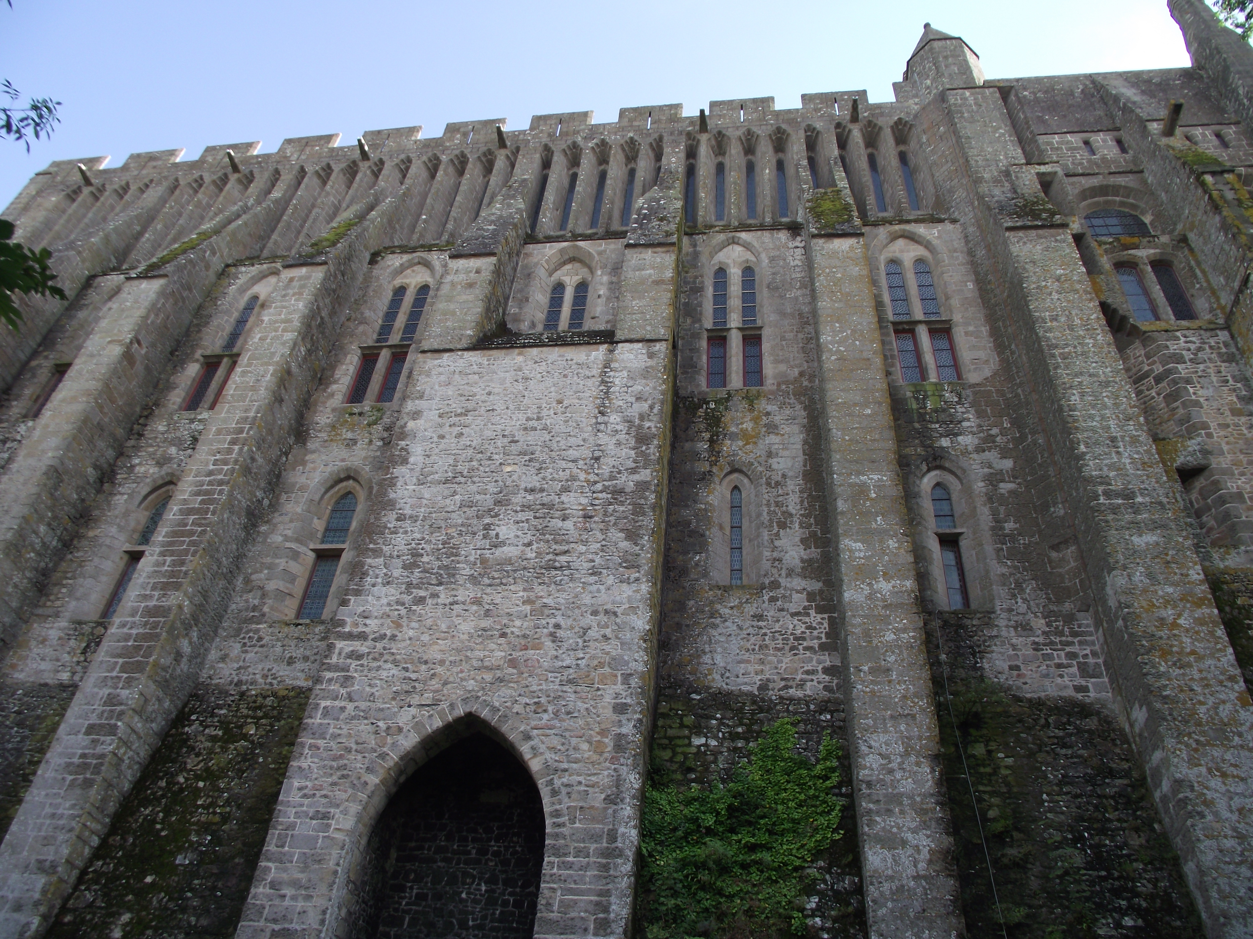 Abbey of Mont-Saint-Michel, the "Merveille", 1203-28